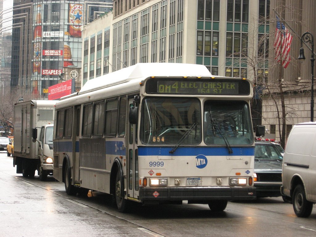 MTA Bus Company Orion V 05.501 CNG 9999 in New York, NY, on the QM4 line.